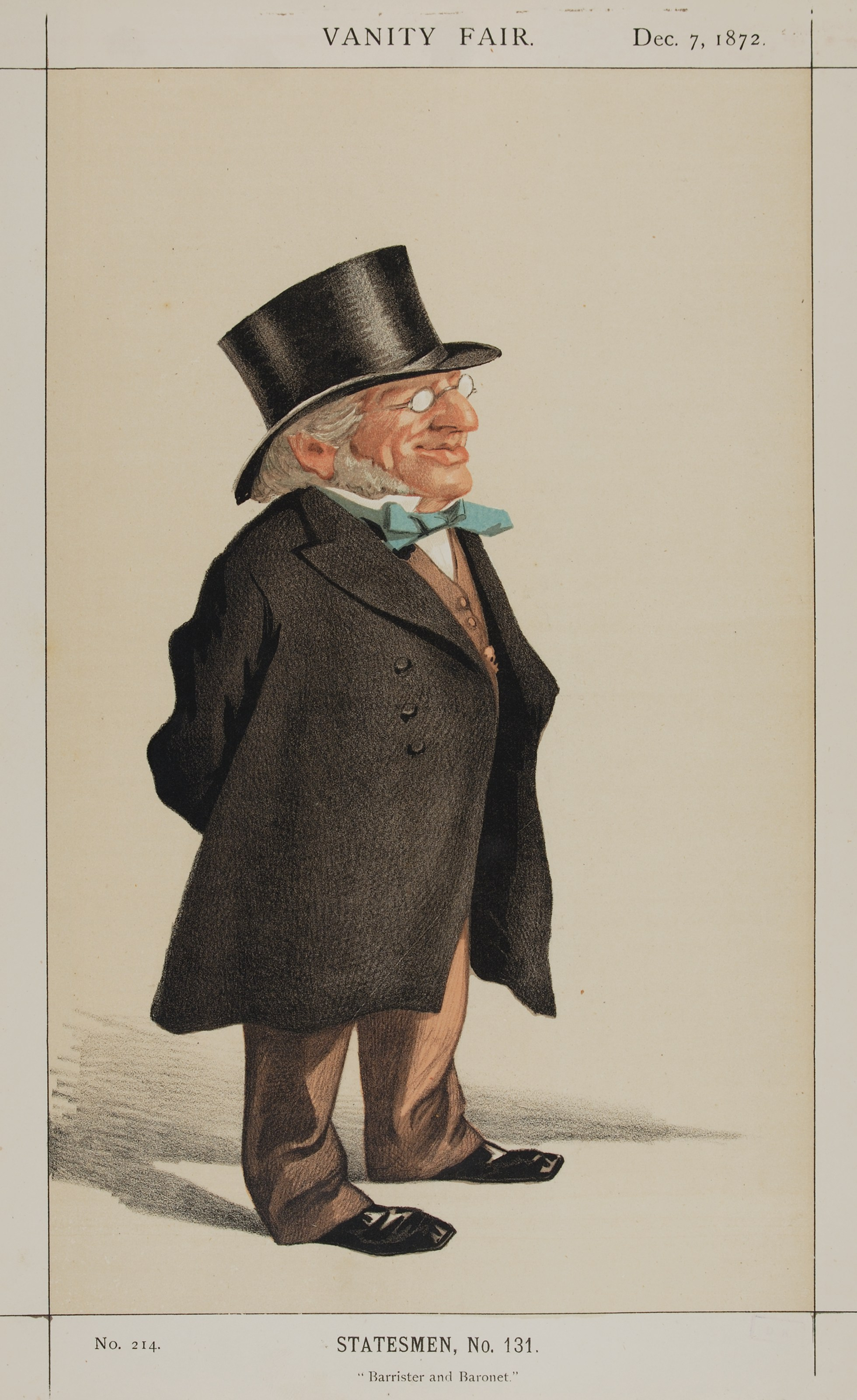 Statesmen No.131: Caricature of Sir Francis Goldsmid M.P. (1808-1878). Caption reads: "Barrister and Baronet"